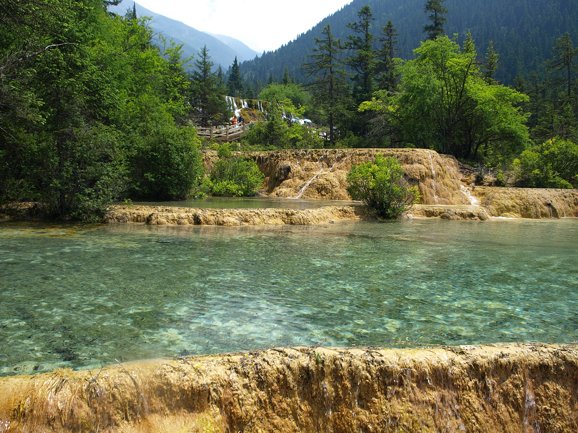 Welcome-Ponds, Huanglong, Sichuan, China.